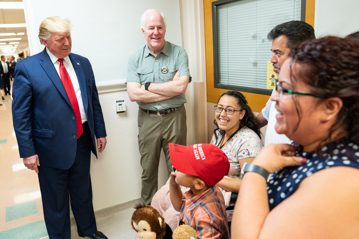 President Donald J. Trump and First Lady Melania Trump, joined by Texas Senator John Cornyn, visits with a shooting victim and her family members Wednesday, Aug. 7, 2019, at the University Medical Center of El Paso in El Paso, Texas. (Official White House Photo by Shealah Craighead)